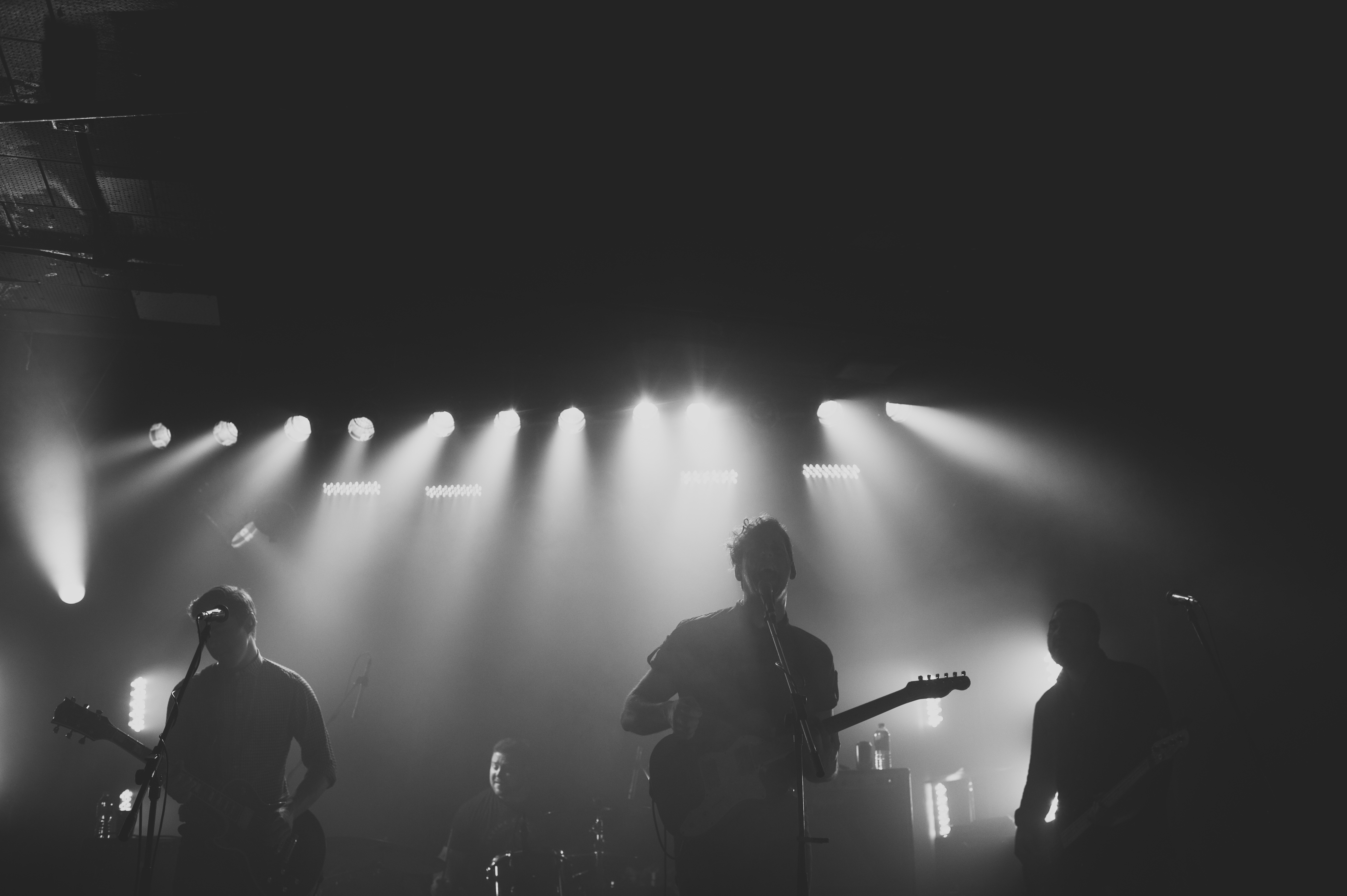 In-Flight Safety during their performance in Halifax on Feb 1, 2014 at The Marque Club photographed by Jeff Cooke Photography.